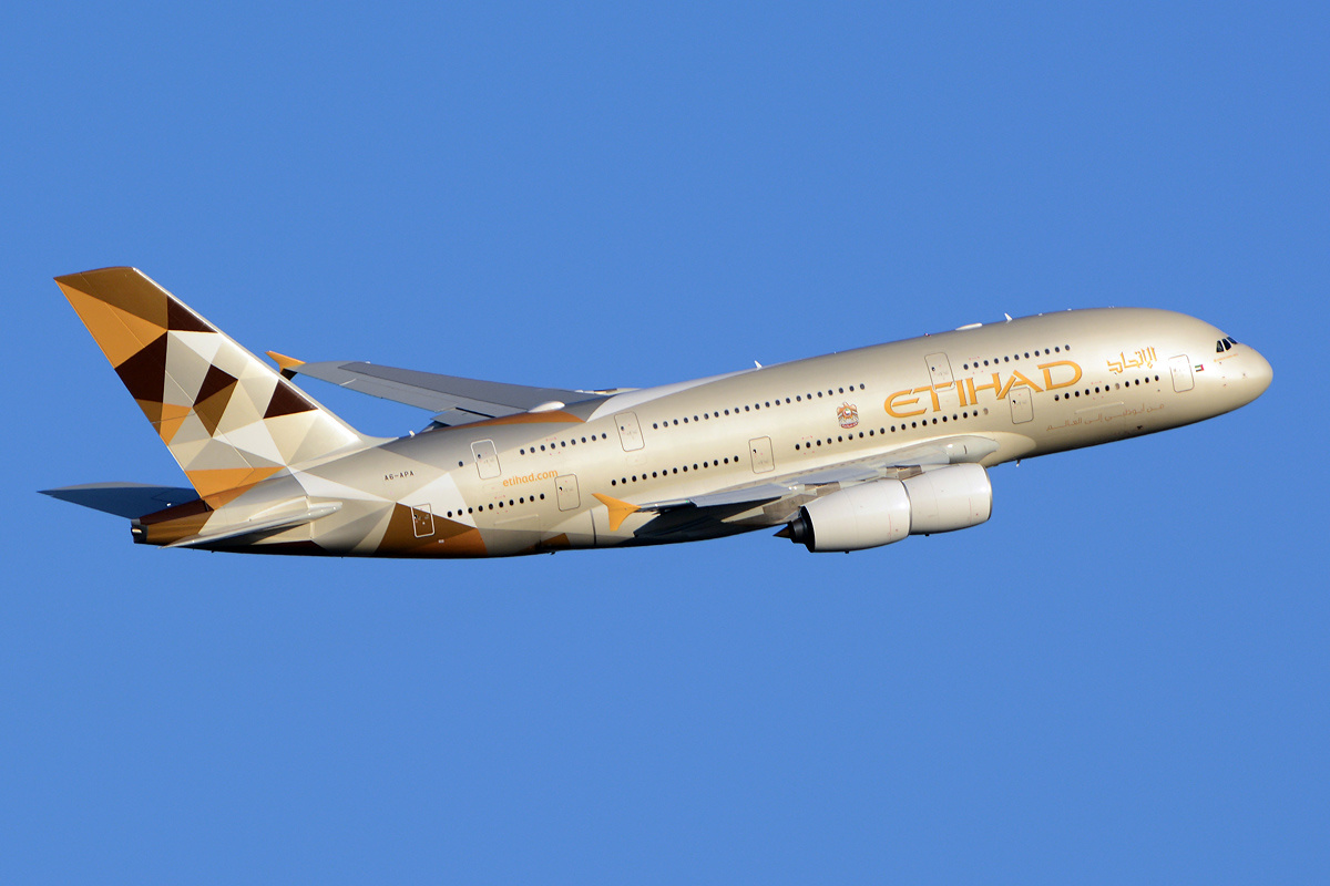 A6-APA (cn 166) Second day of service for the first Etihad A380. Note similarity of registration to Qatar's A380 A7-APA